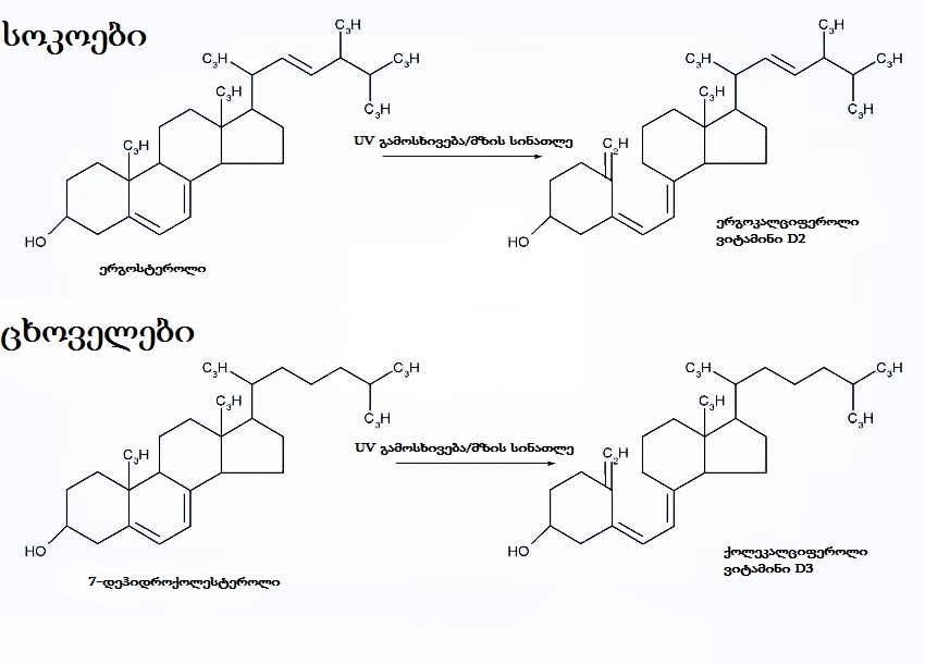 D ვიტამინის ბიოსინთზი სოკოებსა და ცხოველებში. მცენარეები არ შეიცავს D ვიტმინის პრეკურსორებს და არ შეუძლიათ მისი სინთეზი.